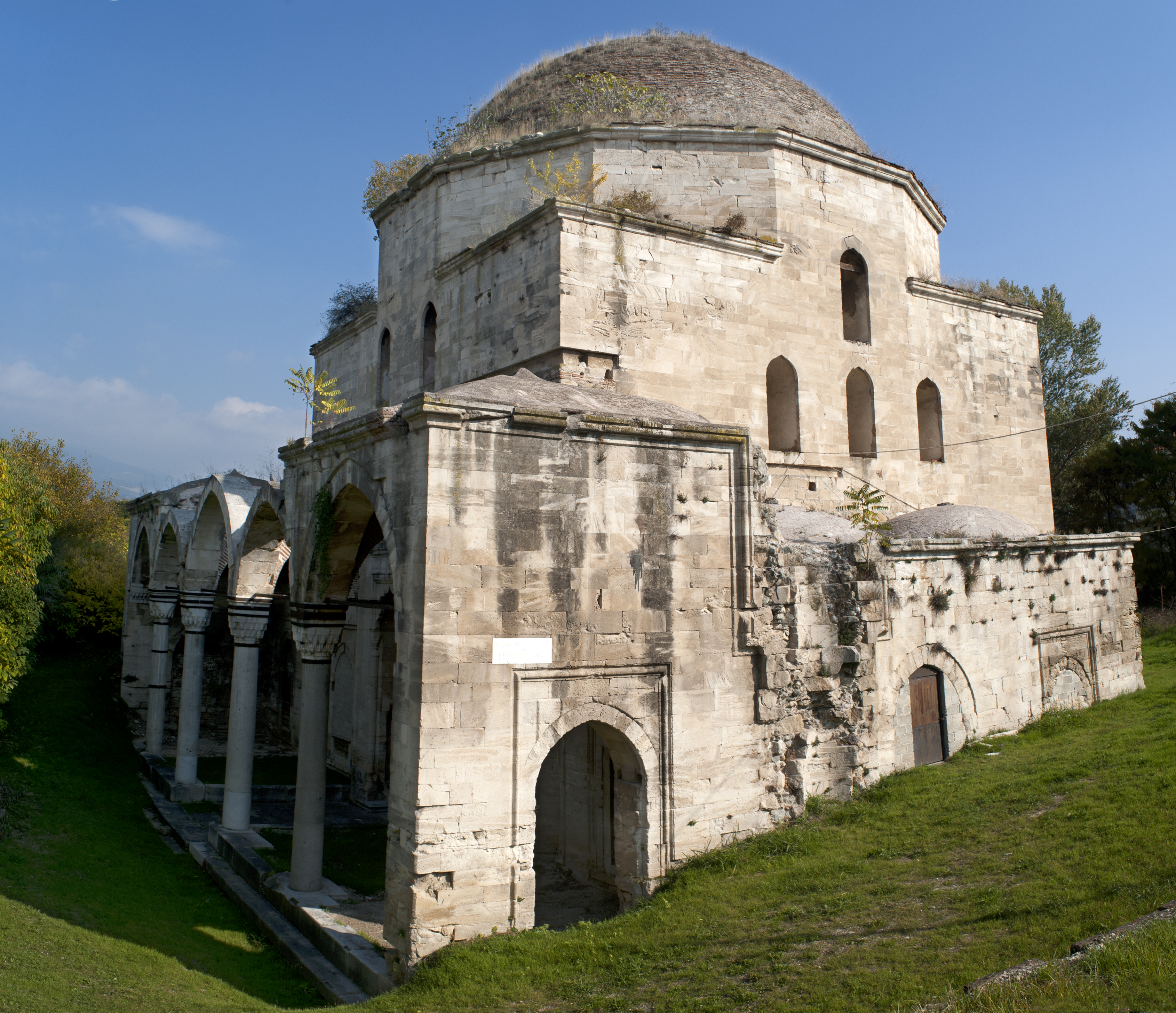 Ahmet Pasha mosque (build by Mehmet Bey), Serres, Greece.